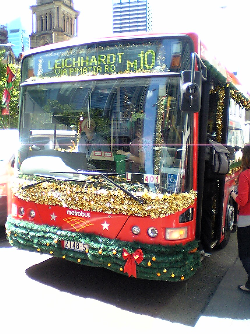 Front of the number M10 Metrobus Sydney (Volgren CR228L bodied Volvo B12BLEA, 2148 ST, built 2010), decorated for Christmas by the staff of the Leichhardt depot with tinsel and imitation ivy.